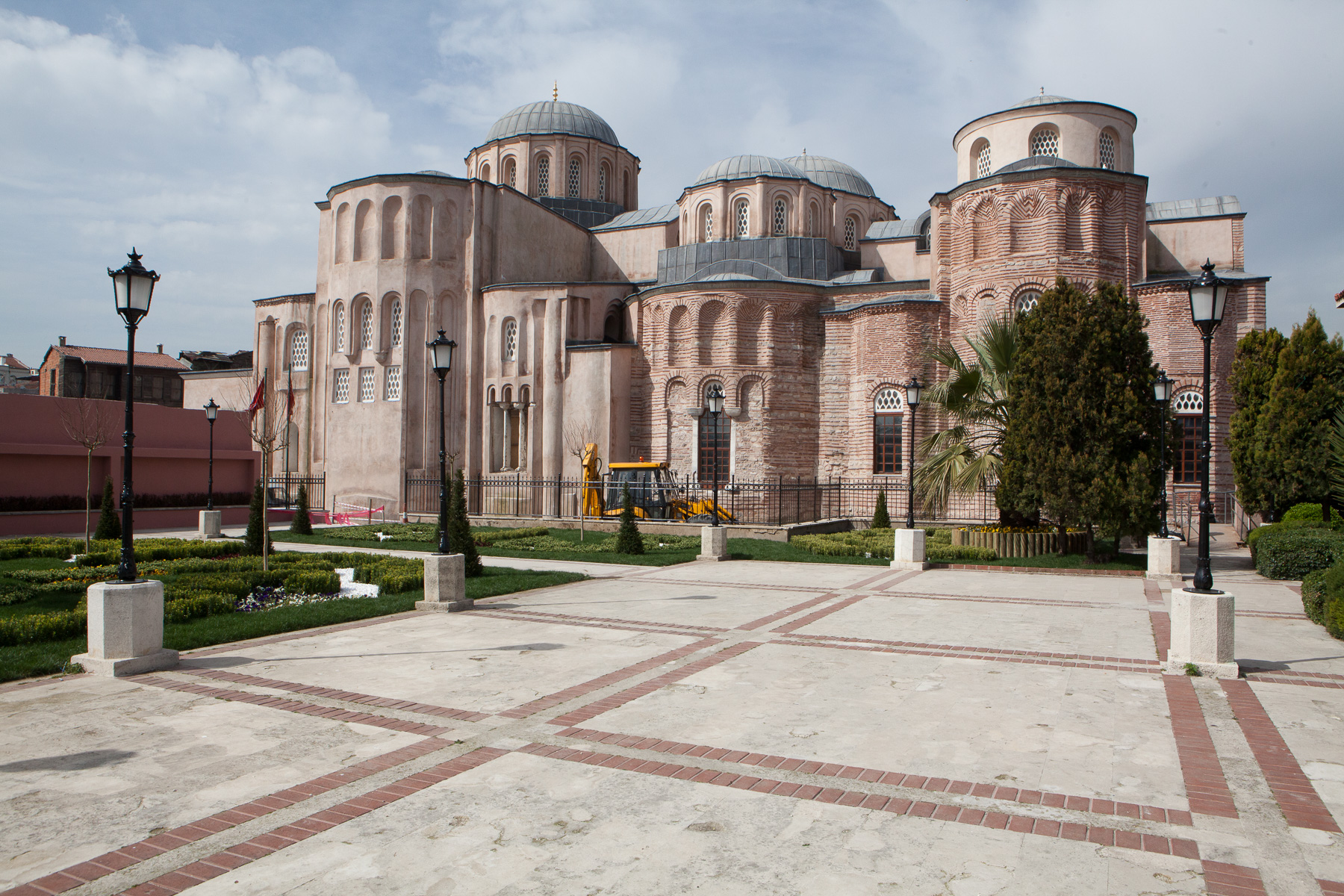 Zeyrek Mosque (full name in Turkish: Molla Zeyrek Camii) or Pantokrator Monastery (in Turkish: Pantokrator Manastırı), is a significant mosque in Istanbul, made of two former Eastern Orthodox churches and a chapel.